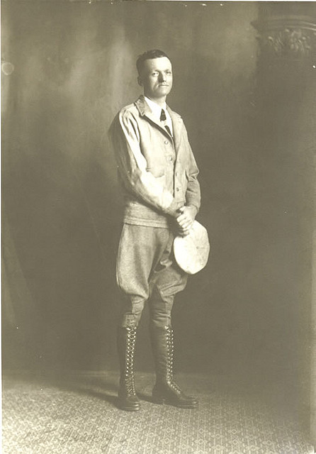 Walter T. Varney, founder of United and Continental Airlines, photographed in 1921 while a U.S. Air Mile pilot.